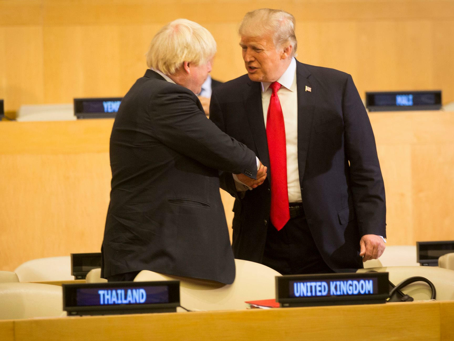 President Donald J. Trump and the British Secretary of State for Foreign and Commonwealth Affairs Boris Johnson at the United Nations General Assembly (Official White House Photo by D. Myles Cullen)